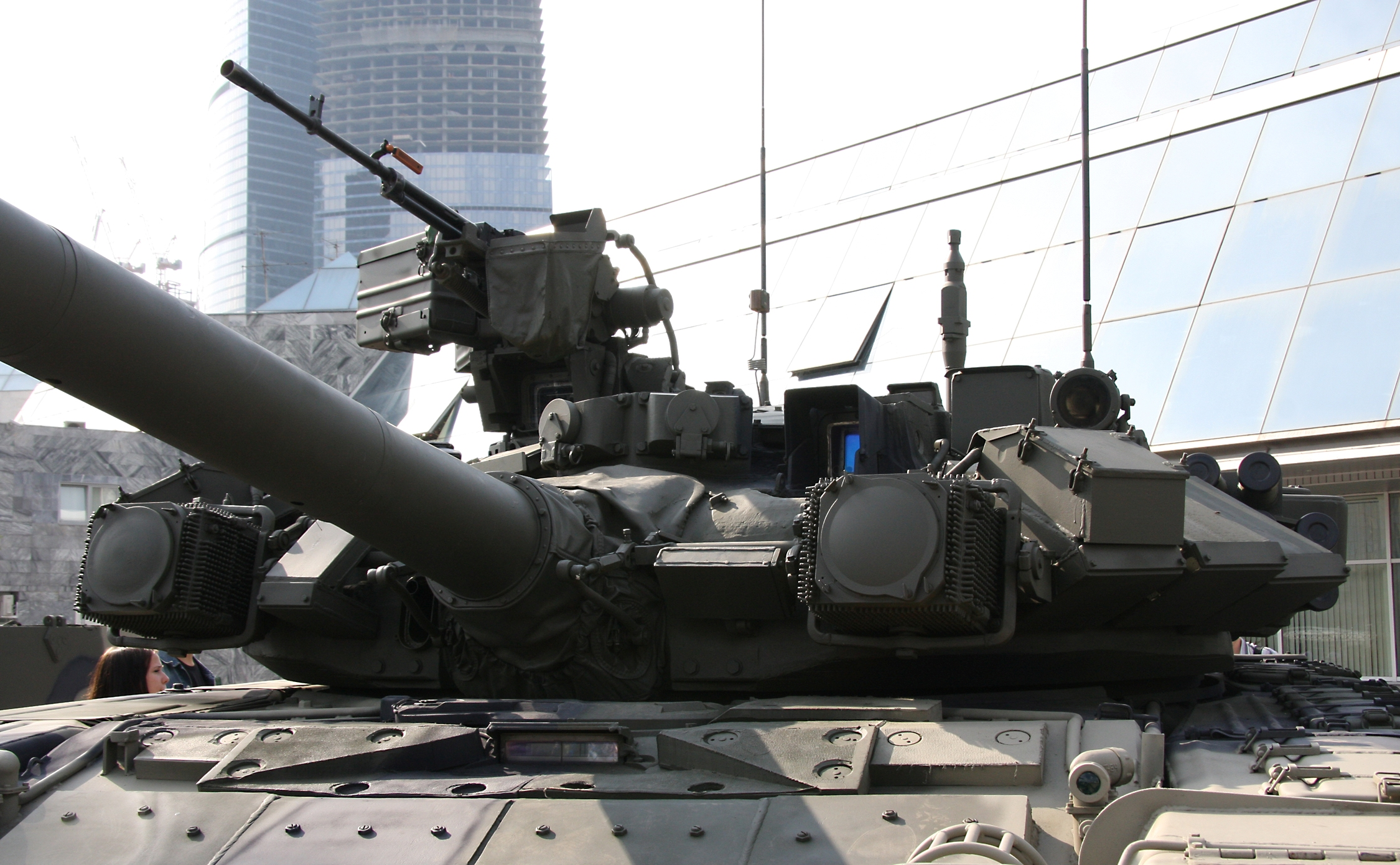 The Ministry of Defence of Russia exposition in open access. On display are among others a T-90S and a T-80U tank.